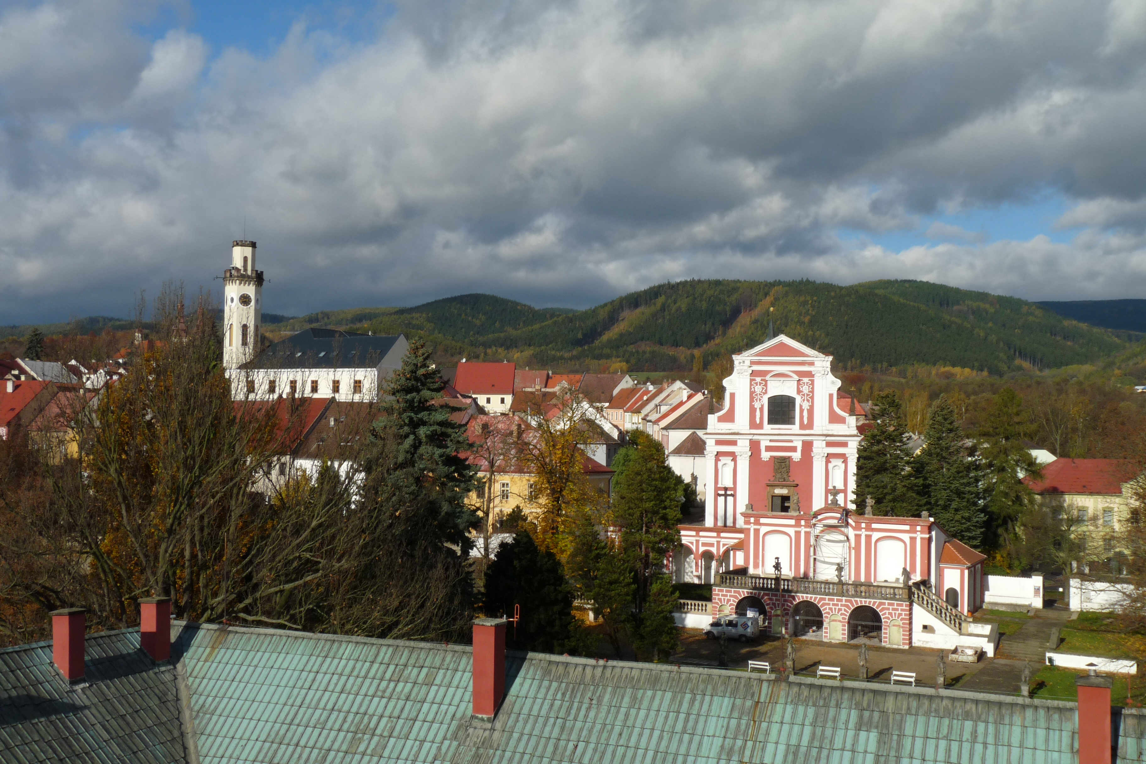 Town Hall, Holy Trinity Church and Sala Terrena as seen from the tower of the chateau in the town of Klášterec nad Ohří, Chomutov District, Ústí nad Labem Region, Czech Republic.